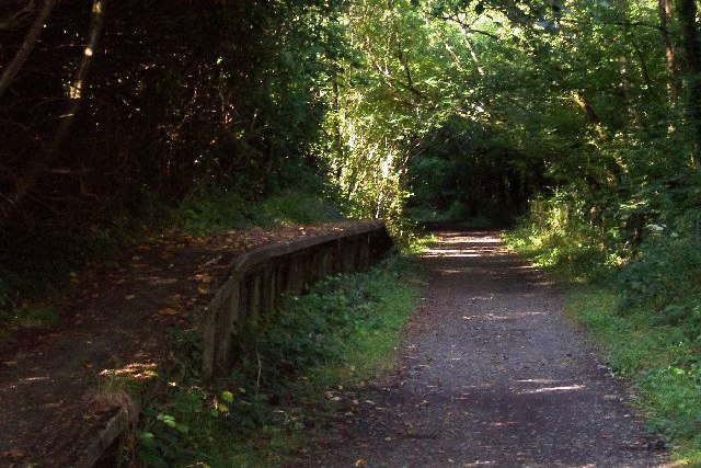 Watergate Halt, near Torrington, Devon